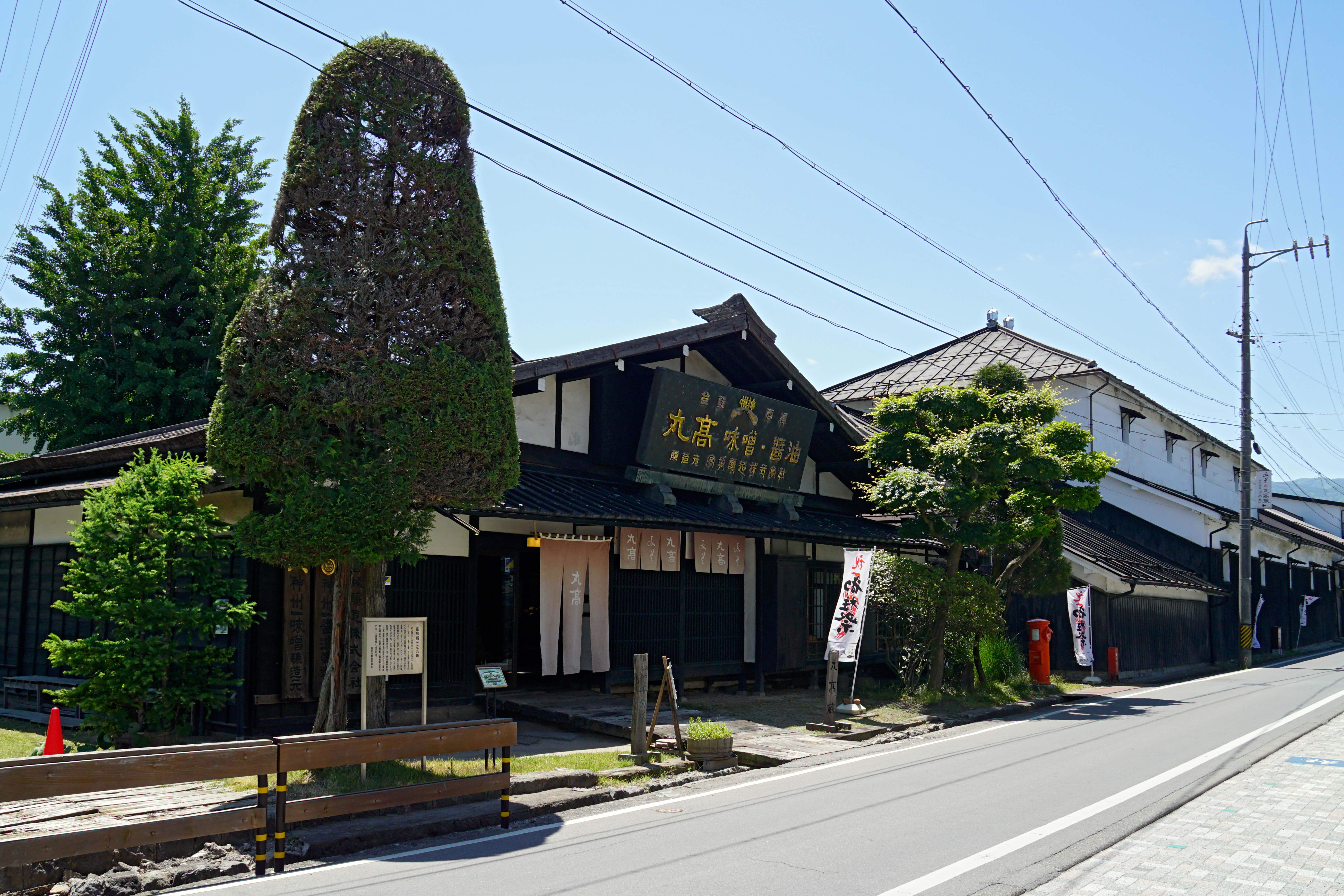 Miyasaka-jozou in Suwa, Nagano prefecture, Japan